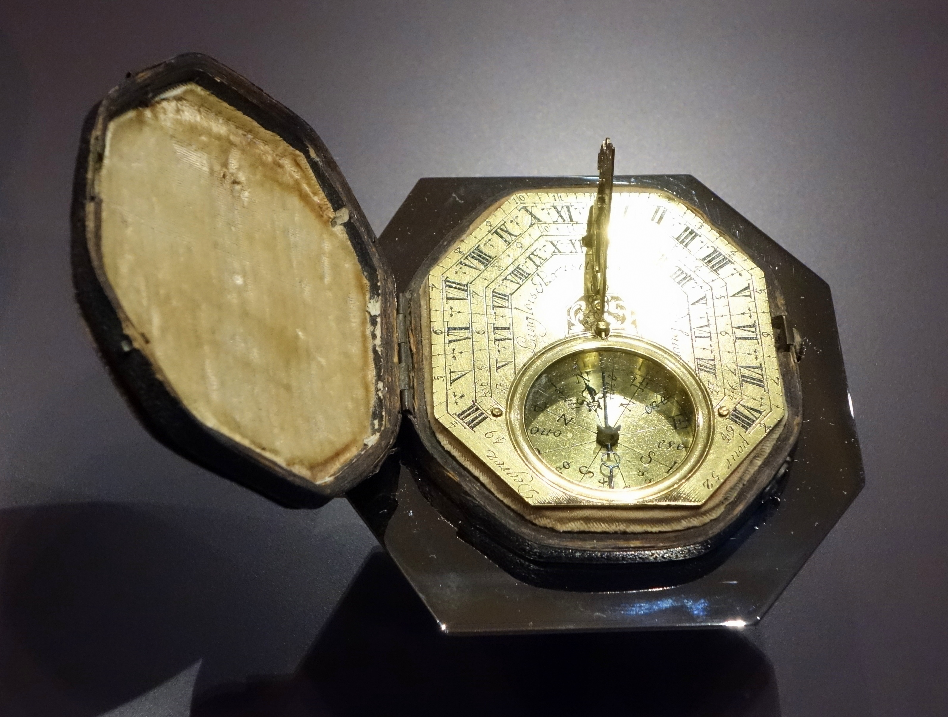 Exhibit in the Mathematisch-Physikalischer Salon (Zwinger), Dresden, Germany. This artwork is old enough so that it is in the public domain.